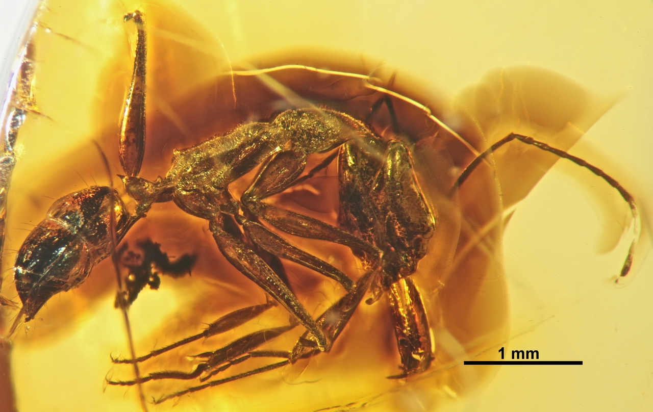 Profile view of the Anochetus dubius holotype. Specimen SMNSDO4192